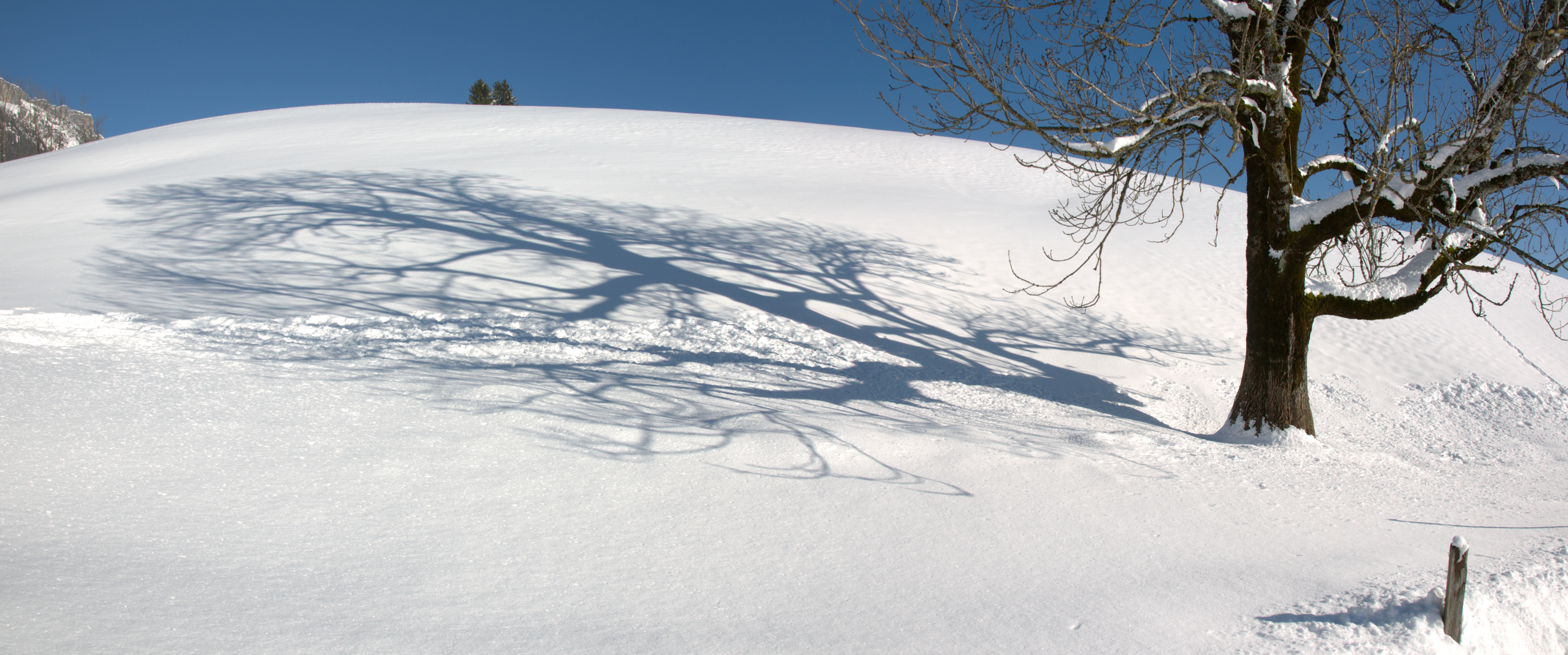 Switzerland, Canton of St. Gallen, a fine winter day in Wildhaus